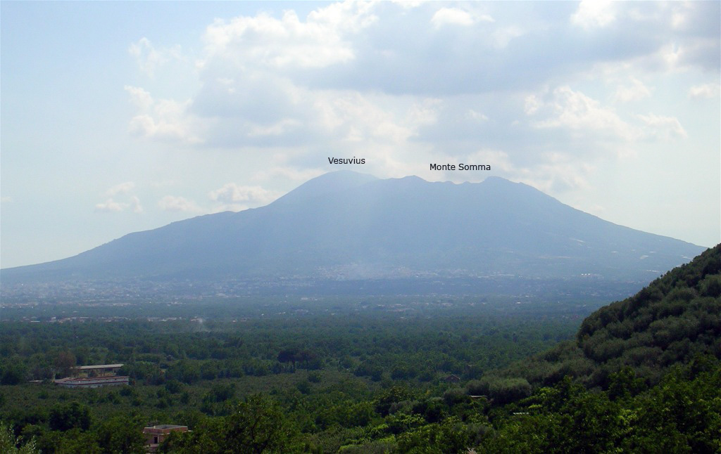 Monte Vesuvius (top left crater) and Monte Somma (right crater)